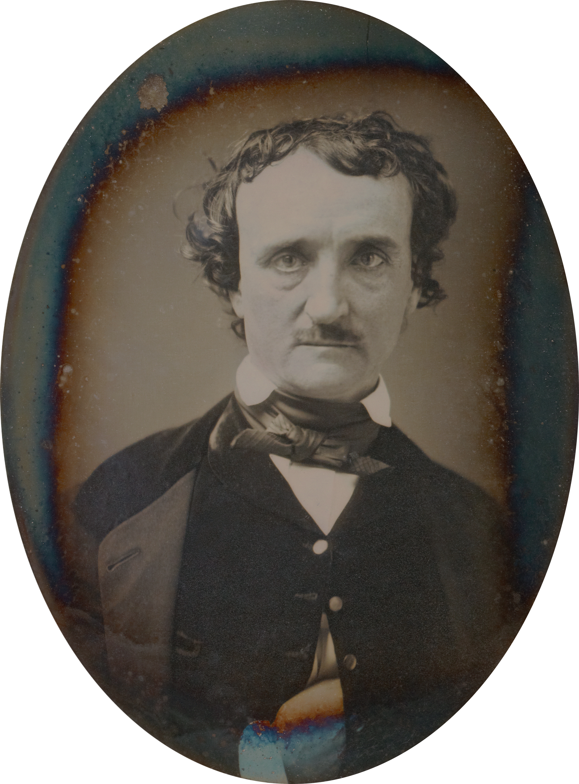 Edgar Allan Poe, circa 1849.